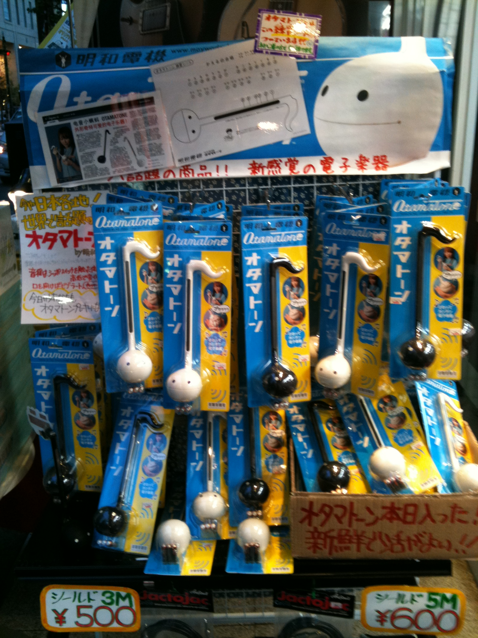 Maywa Denki OtamaTone a continues-pitch electronic musical instrument with rubber filter which is similar to wah pedal or talk box “How to play Otama-Tone”